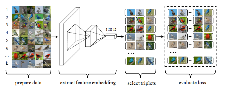 triplet pipline example